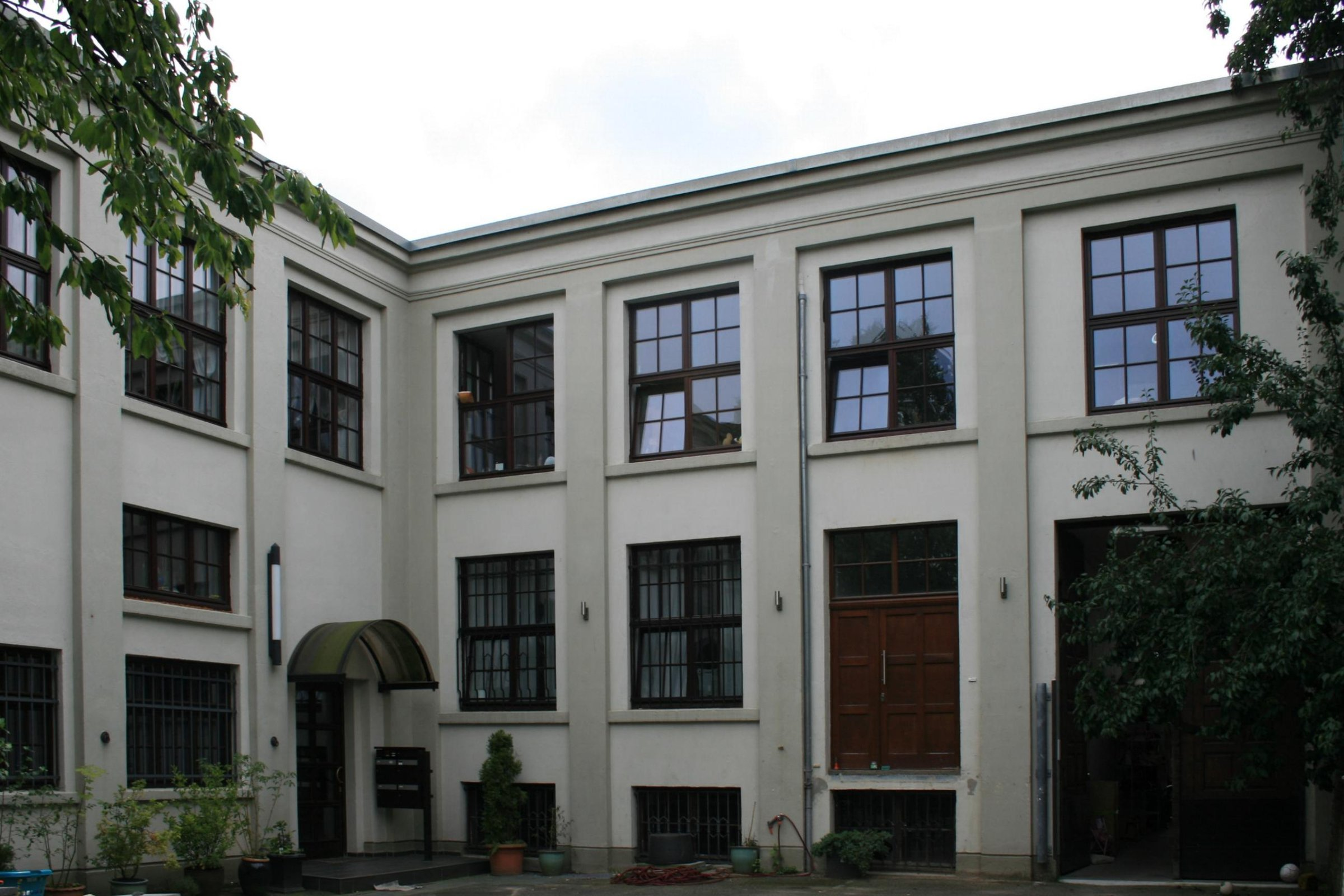 Cultural heritage monument No. N 021 in Mönchengladbach